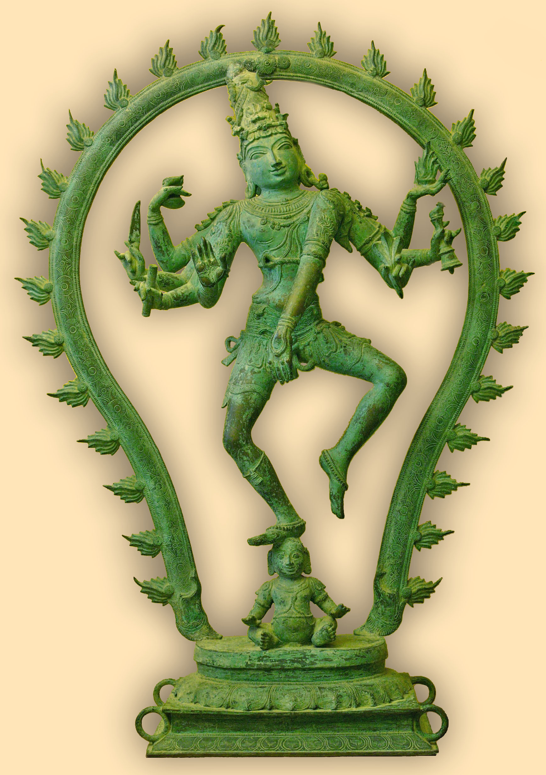 Shiva nataraja from Pondicherry (east coast, south India), presumably 15th century. Bronze covered with green patina from weathering in salty air, placed for some hundred years in a temple close to the sea.